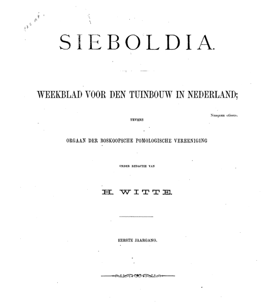 Sieboldia, weekblad voor den tuinbouw in Nederland tevens orgaan der Boskoopsche Pomologische Vereeniging, E.J.Brill, Leiden, 1875, title page. Editor: H. Witte. Weekly for horticulture, and organ of the Pomological Society of Boskoop.